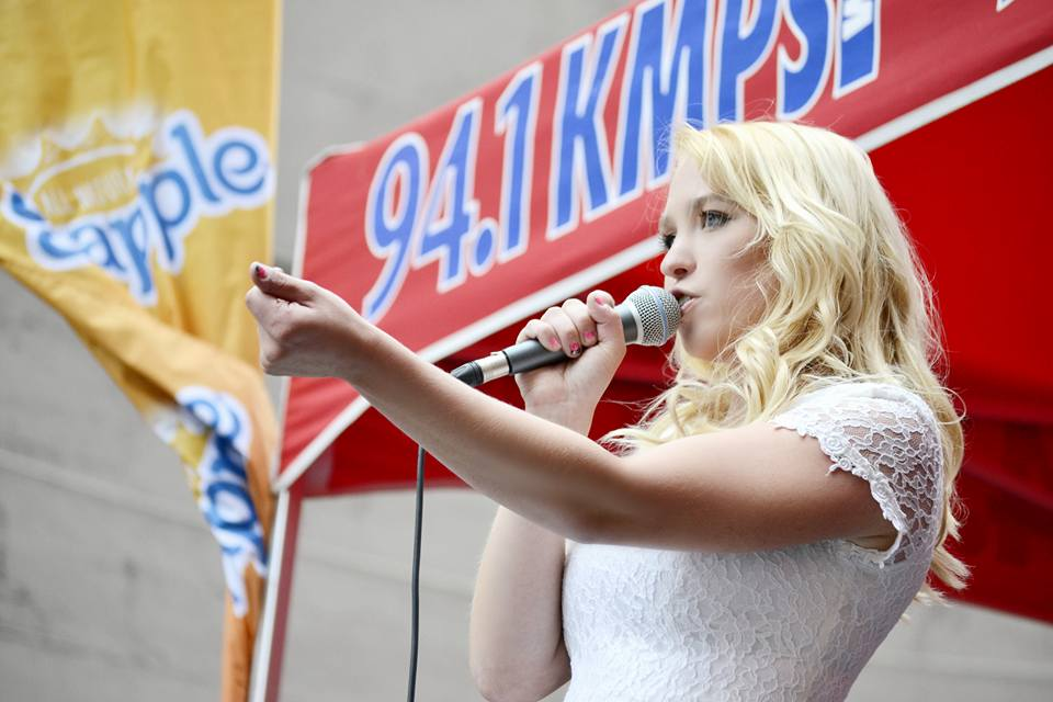 Megs McLean at the KMPS pop-up show for Taylor Swift